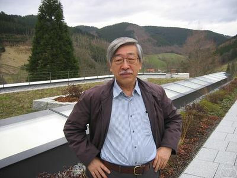 Yoichi Motohashi, Oberwolfach 2008